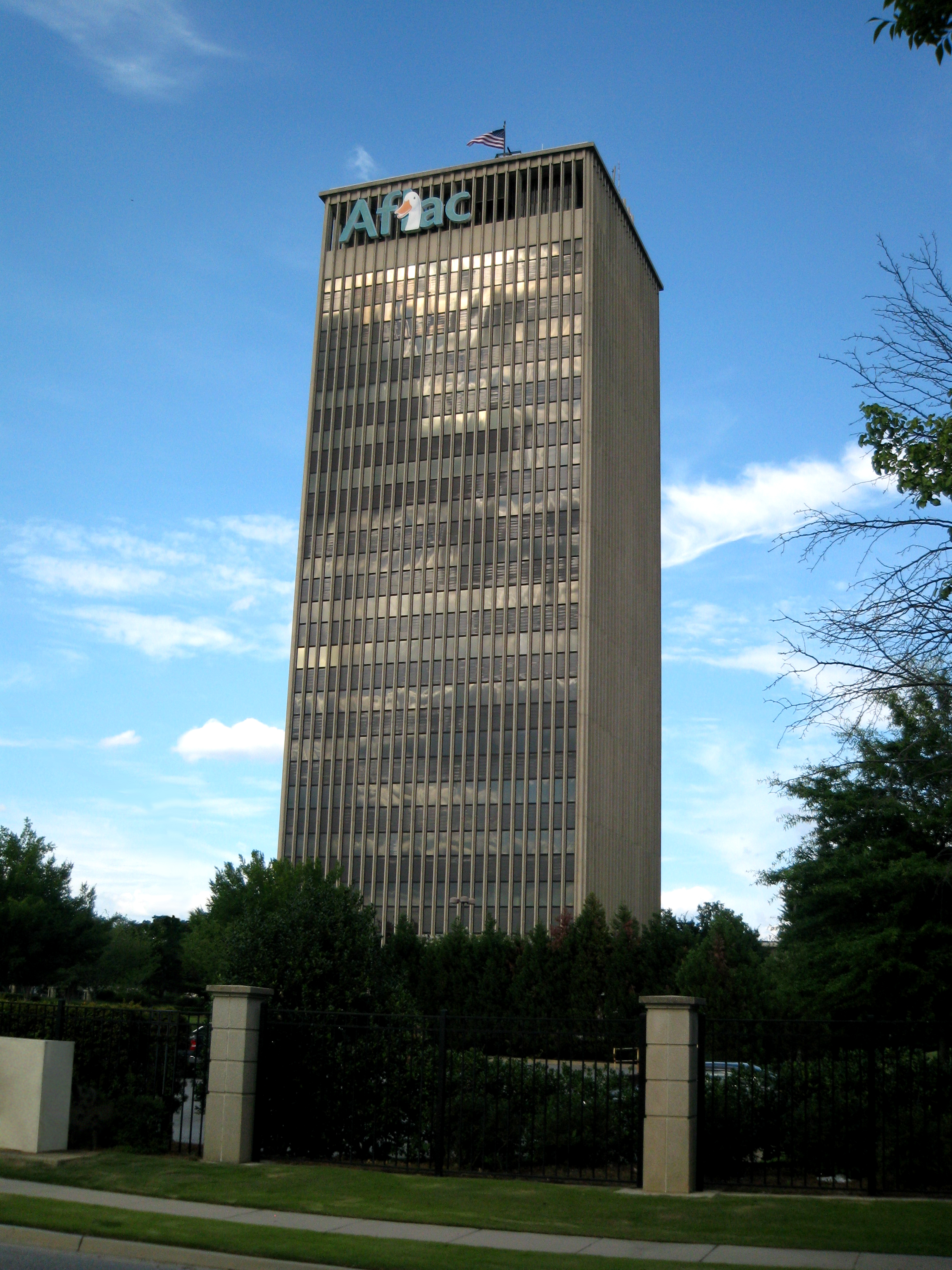 AFLAC Insurance Worldwide Headquarters Campus Main Tower in Columbus Georgia U.S.A. Photograph by Gary Dunn 2012